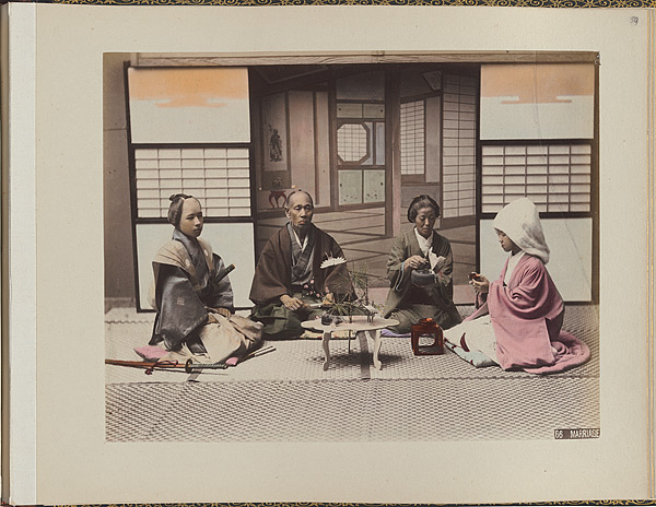 albumen silver photograph, colour dyes image